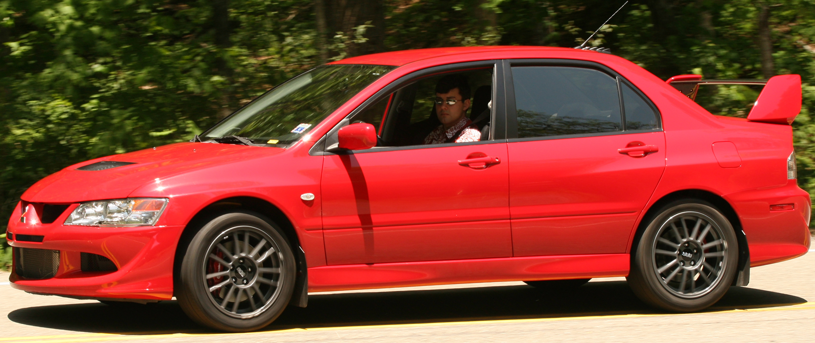 Picture of me in my 2005 Mitsubishi Lancer Evolution MR edition at Deals Gap, North Carolina. Note vortex generators along the rear of the roof and dark gray BBS forged aluminum wheels, which visually distinguish the USDM MR edition from other trim levels. My car has aftermarket rally-style mudflaps. This image is a cropped and rotated version of Image:2005 Evo at Deal's Gap 1.jpg.